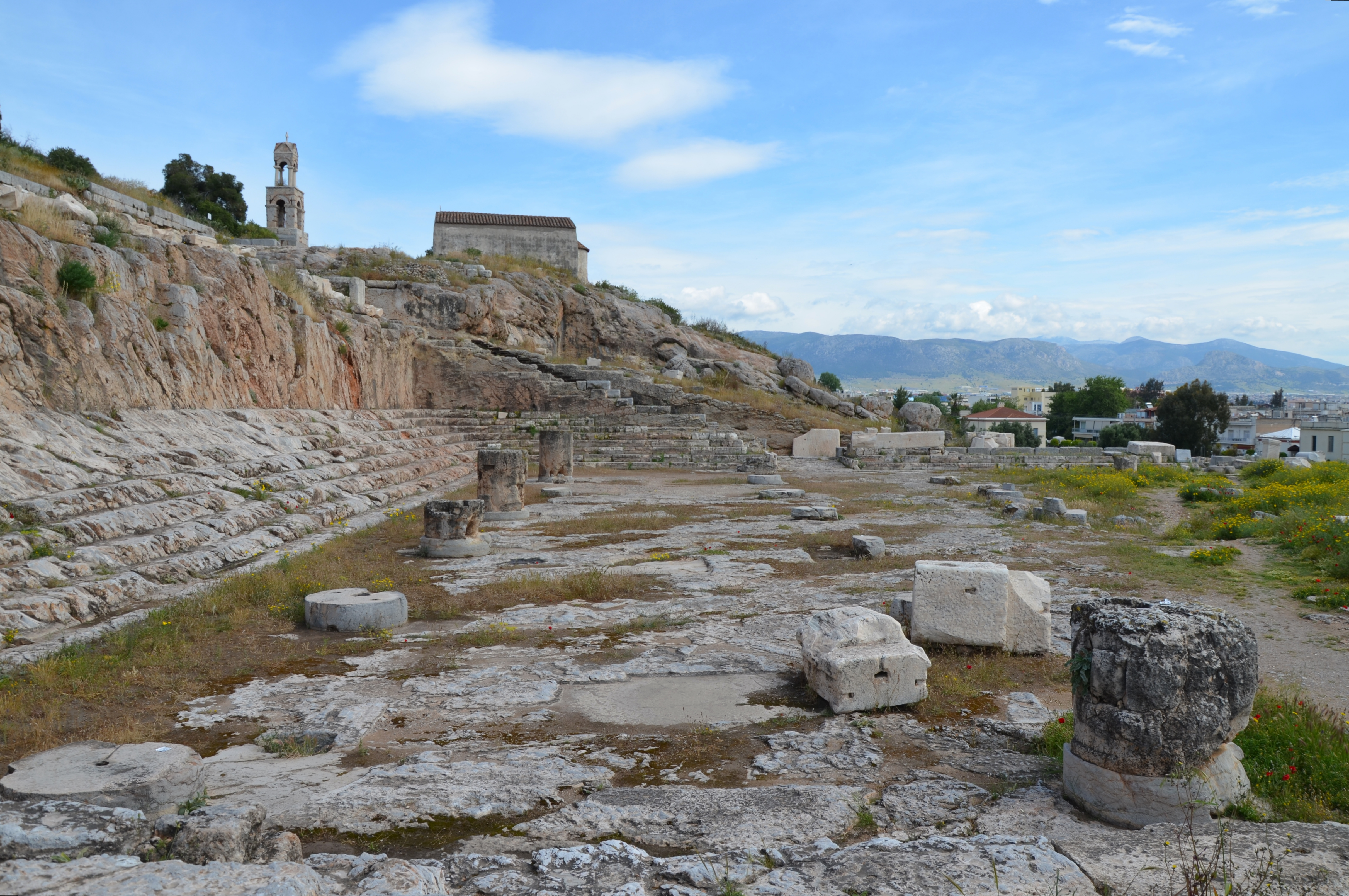 Overall view of the Telesterion, the "place for initiation", Eleusis